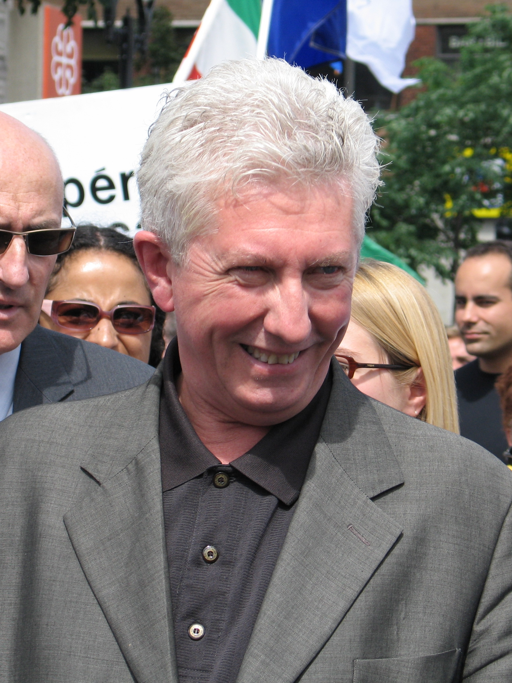 Cropped version of Image:Gilles Duceppe1.jpg